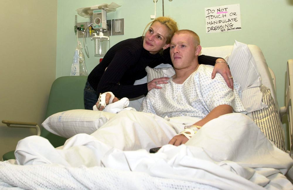 Julia Roberts poses with Private 1st Class Sowell, a patient at the Incirlik hospital Dec. 7. Roberts, along with George Clooney, Brad Pitt, Matt Damon and Andy Garcia, visited Incirlik Air Base, Turkey, to show their support for U.S. troops serving overseas.